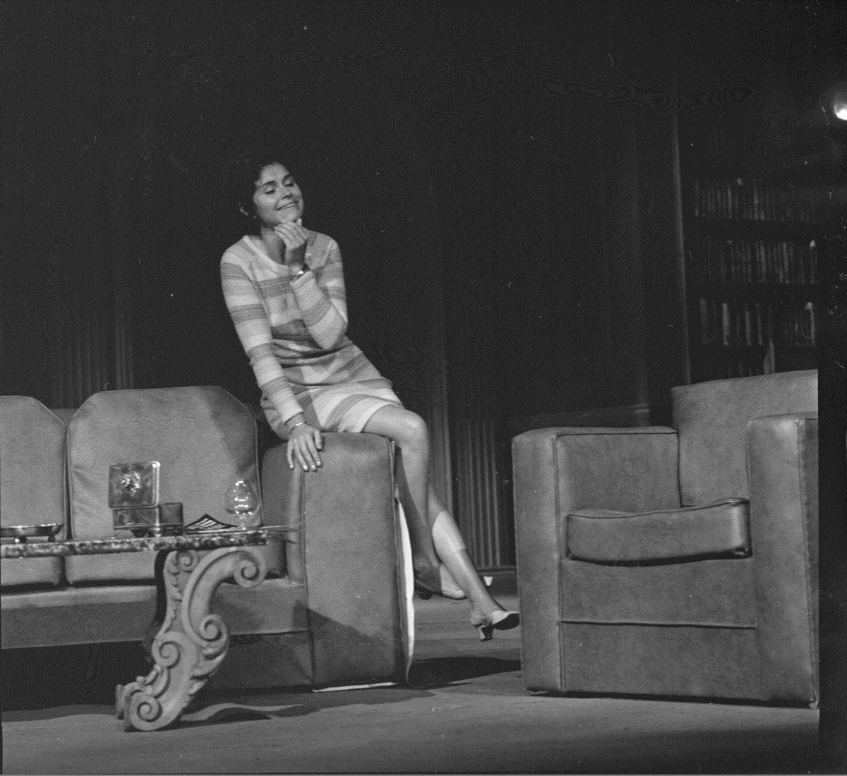 Ingerid Vardund (19272006) was a Norwegian actress. She was known to the Norwegian audience primarily for her roles in the movie Jentespranget (1973) and the sit-com Hjemme hos oss (1980).